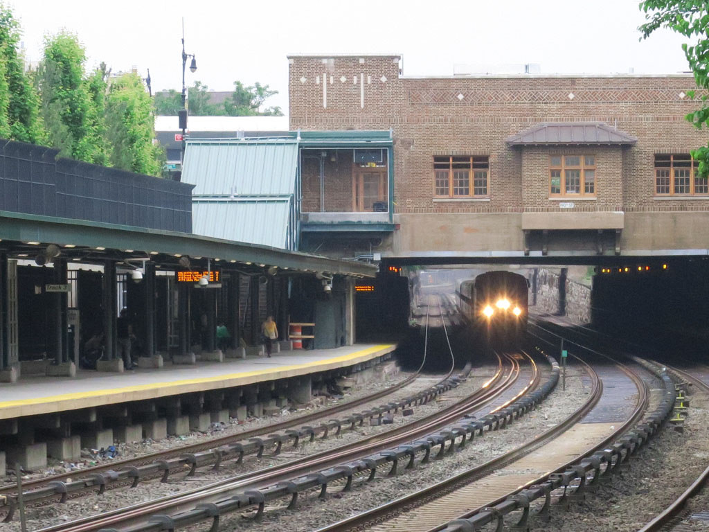 An outbound Metro-North Railroad train approaches Fordham station in June 2016